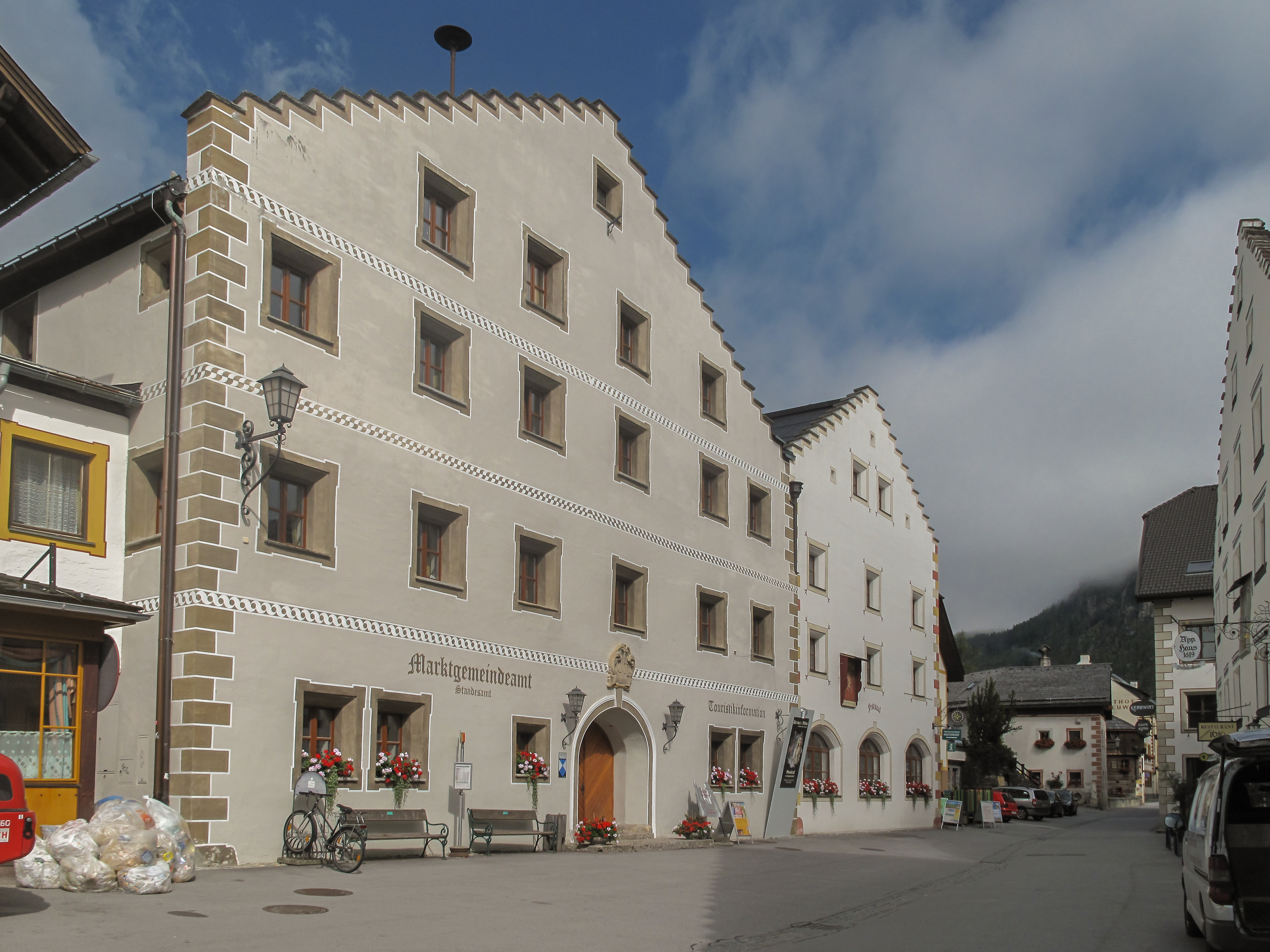 Mauterndorf, view to a street